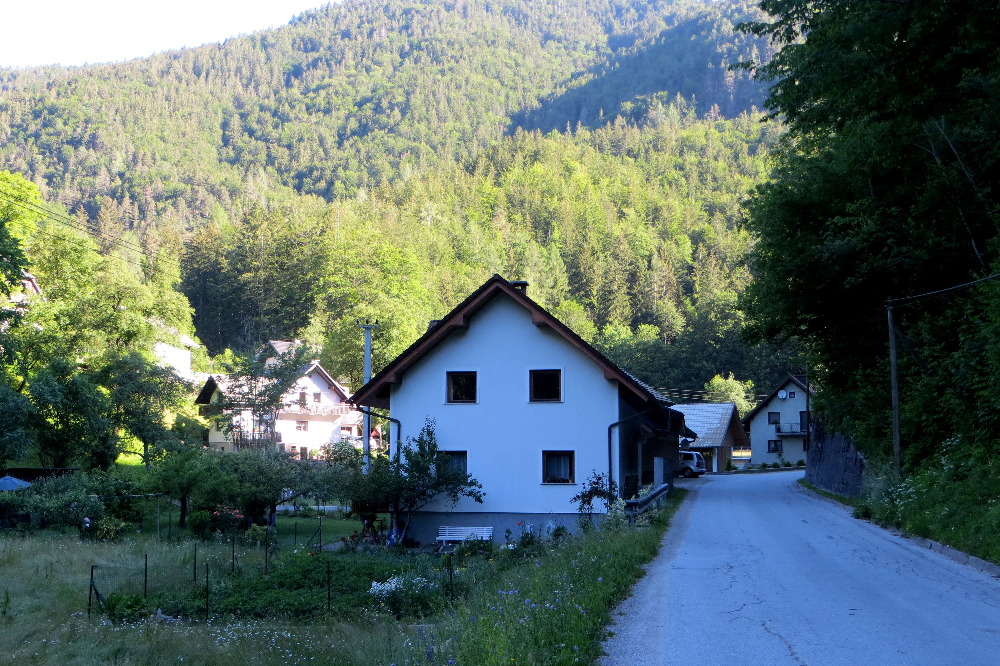 Čadovlje pri Tržiču, Municipality of Tržič, Slovenia